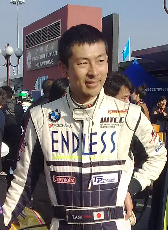 Takayuki Aoki preparing for the WTCC qualifying session in Macau.